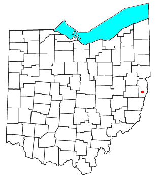 Locator map of the unincorporated community of Weems in Jefferson County, Ohio, United States.